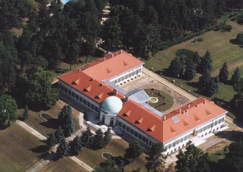 Vajta, Hungary, aerialphotgraphy